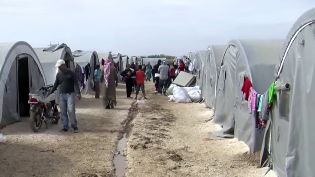 Kurdish refugees from Kobane, Syria in refugee camp on the border at Suruc, Turkey.